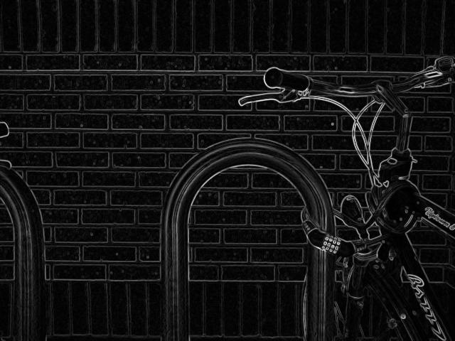 Grayscale image of a brick wall & bike rack